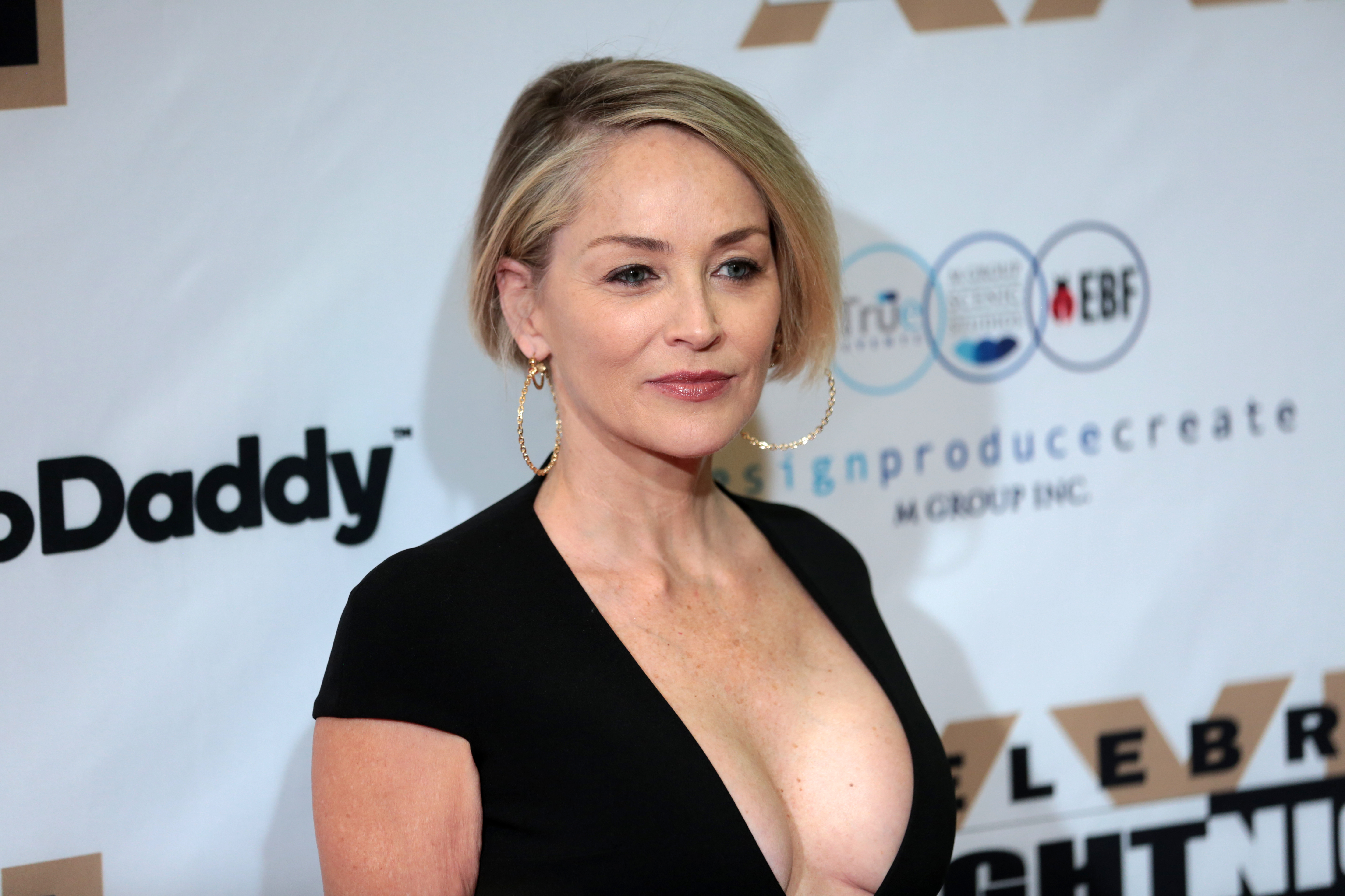 Sharon Stone on the red carpet at Celebrity Fight Night XXIII at the JW Marriott Desert Ridge Resort & Spa in Phoenix, Arizona.